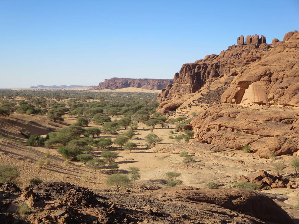 Acacia trees fill the plains near Wadi Archei in the Ennedi Mountains, Chad, Central Africa.